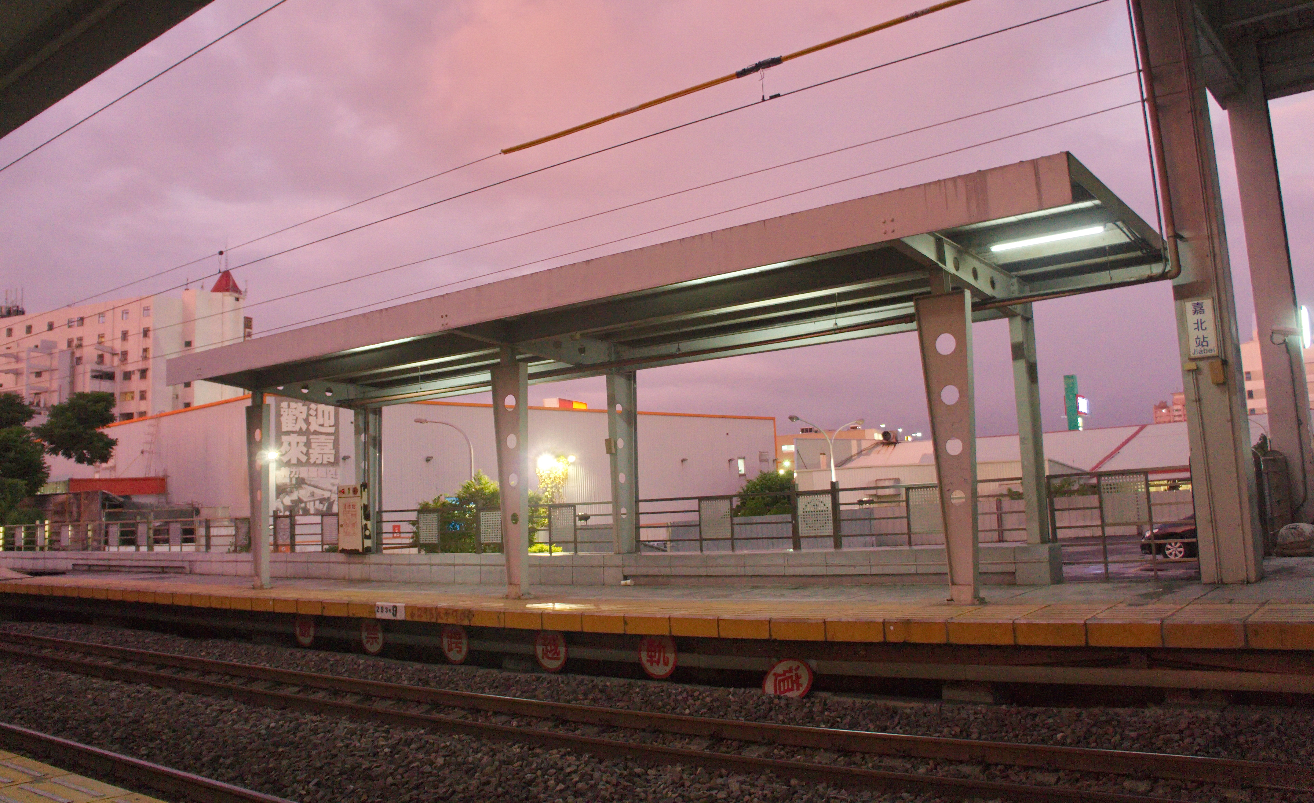 Platform 1 of the Jiabei Station, Chiayi City, Taiwan.